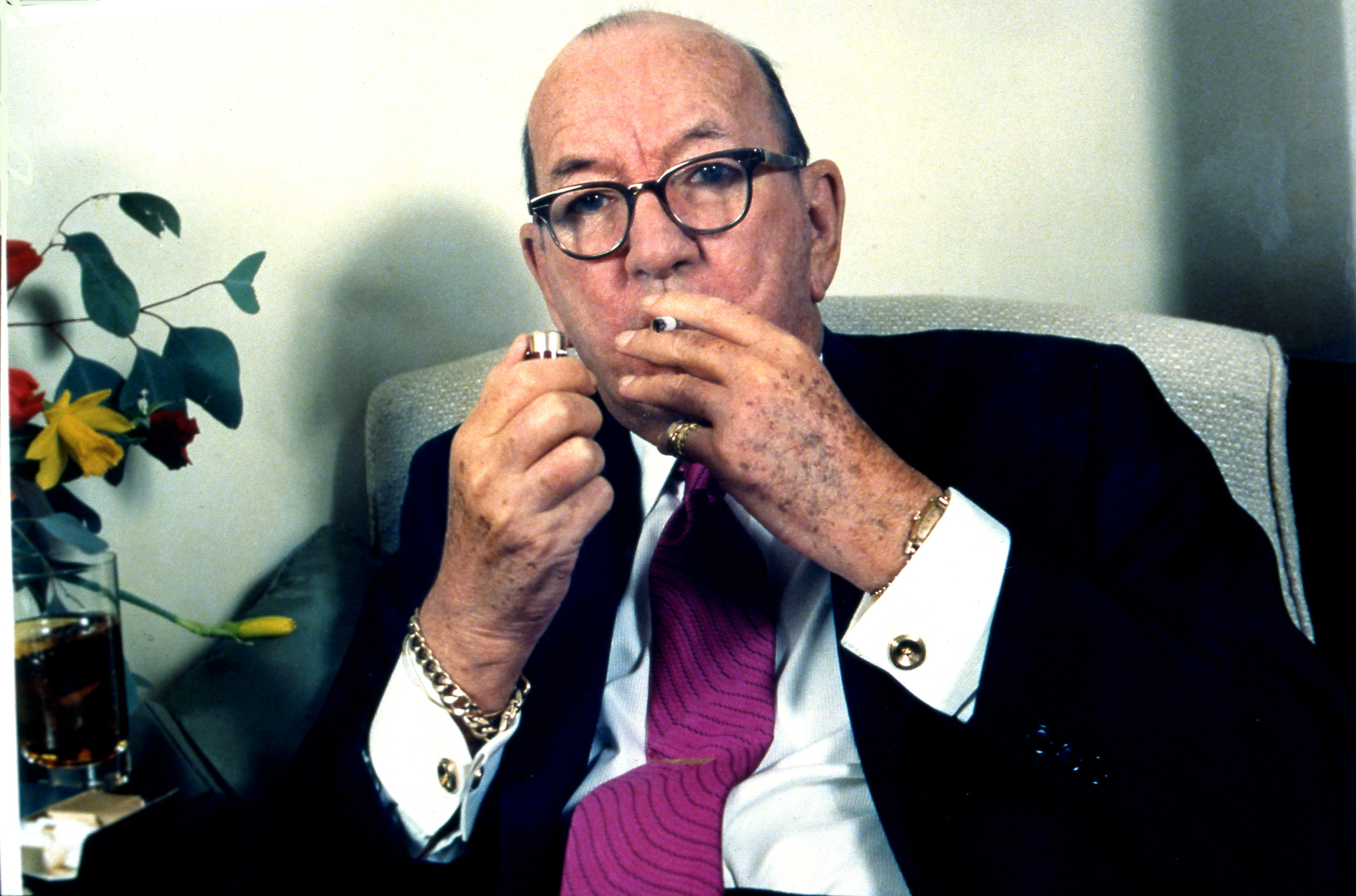 portrait of Sir Noel Coward